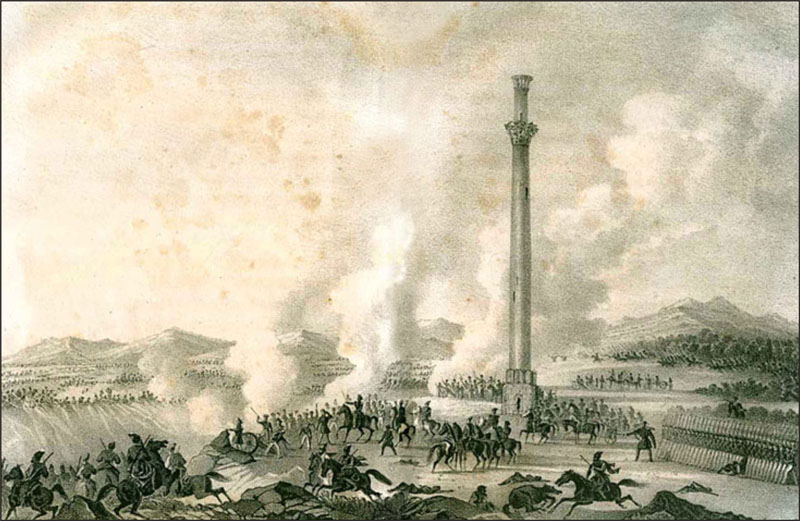 Shamkir minaret.